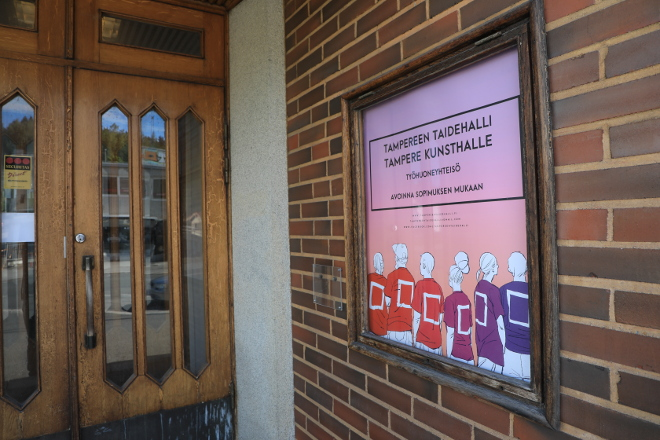 Entrance to Tampere Kunsthalle in FInland.